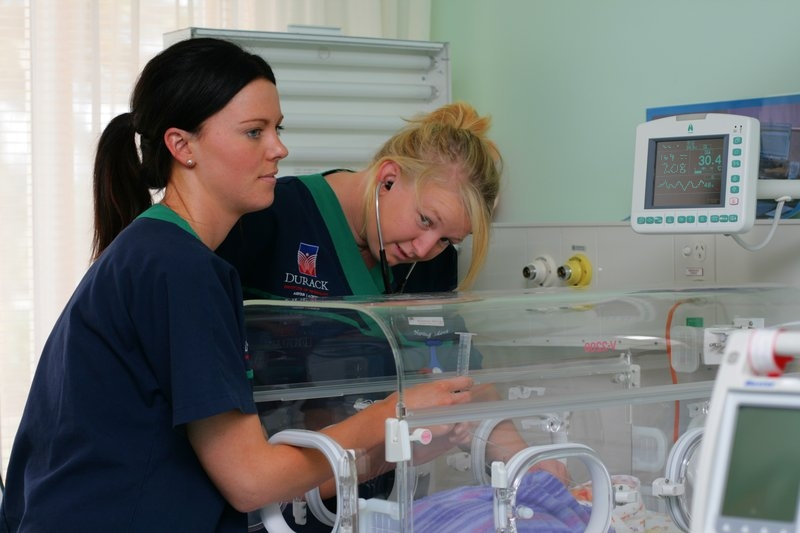 Student enrolled nurses operate a neonatal incubator, for the care of a sick newborn baby.